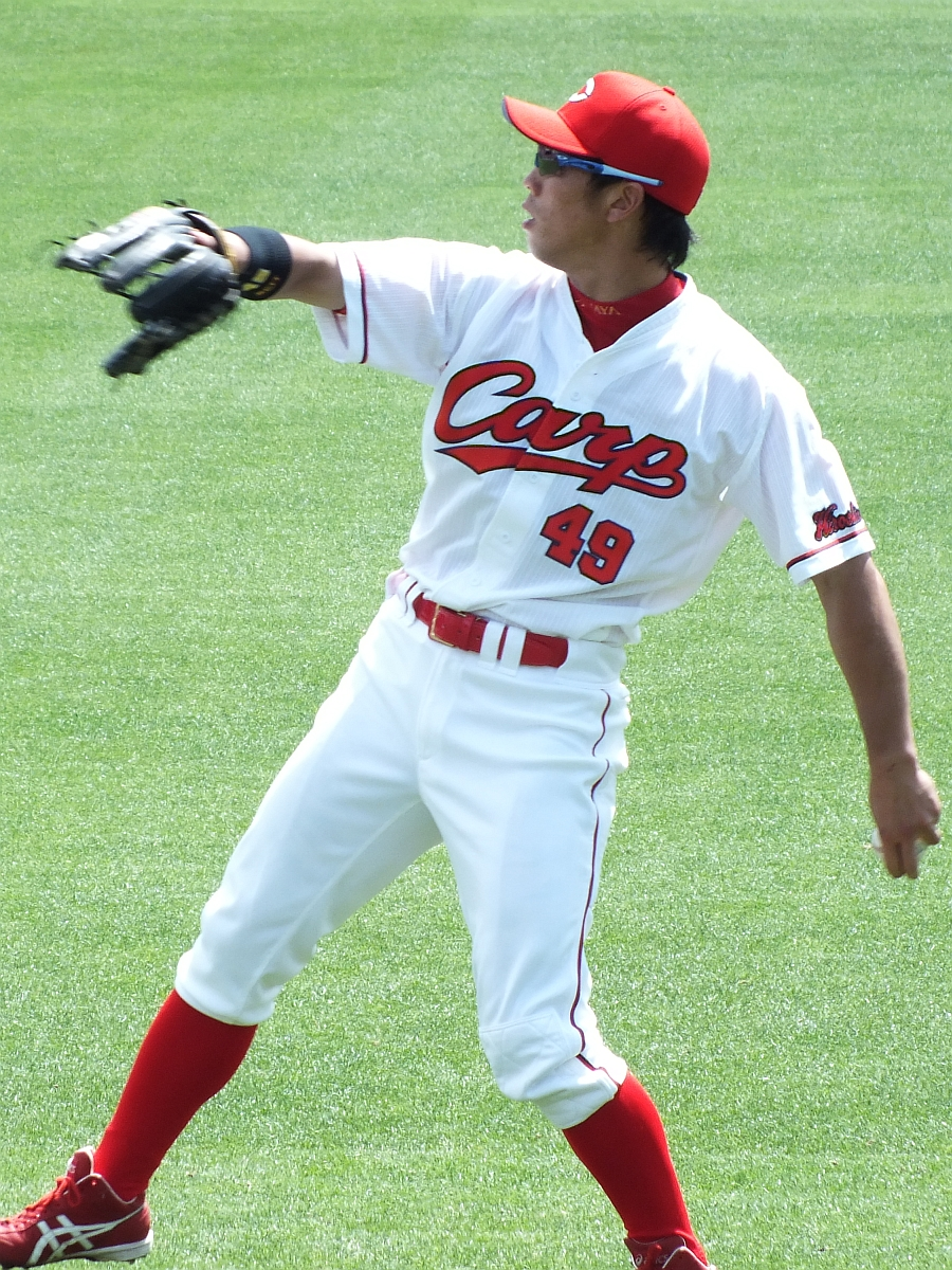 Sohichiro Amaya, outfielder of the Hiroshima Toyo Carp, at MAZDA Zoom-Zoom Stadium Hiroshima.